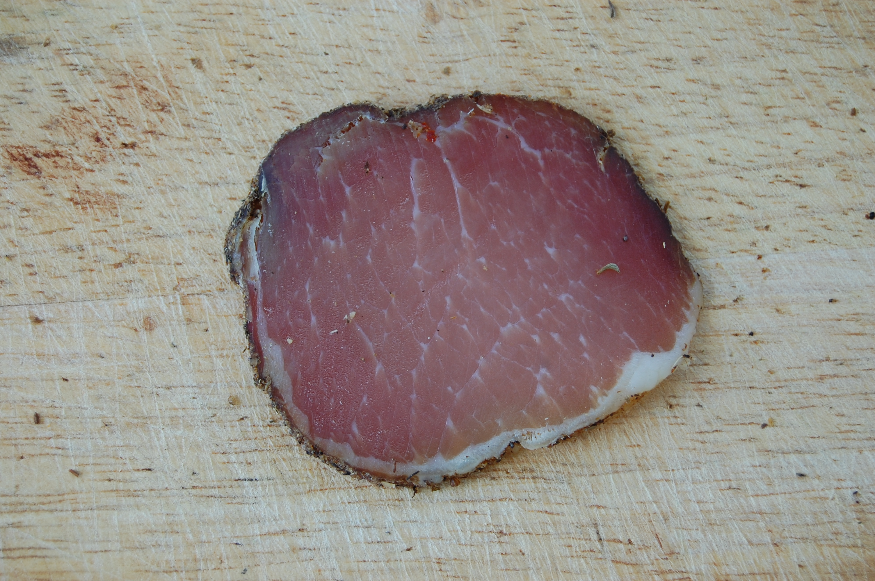 Polendvitsa